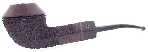 Kaywoodie Pipe of the Year 2003.